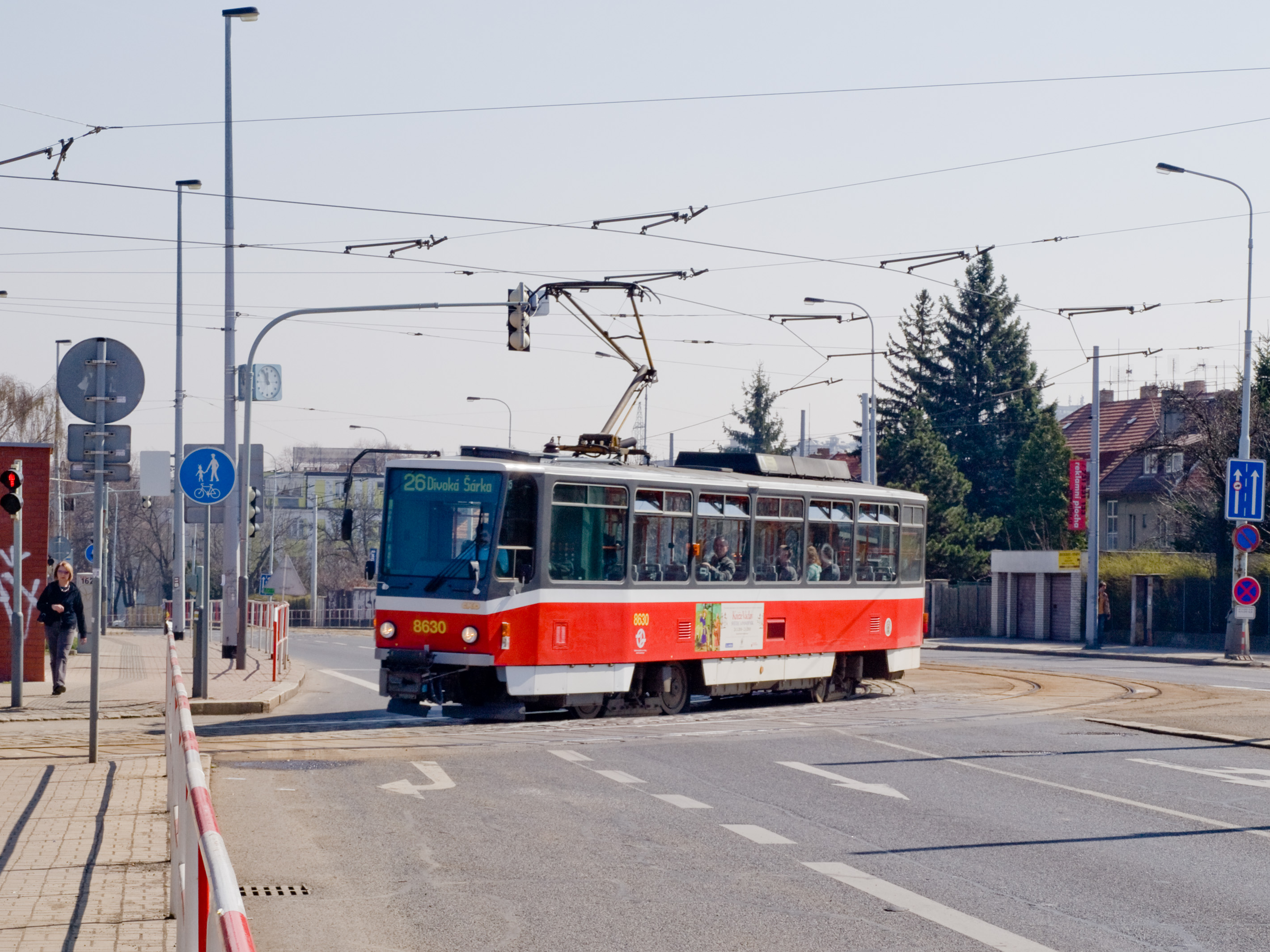 T6A5 arriving into tram loop Divoká Šárka